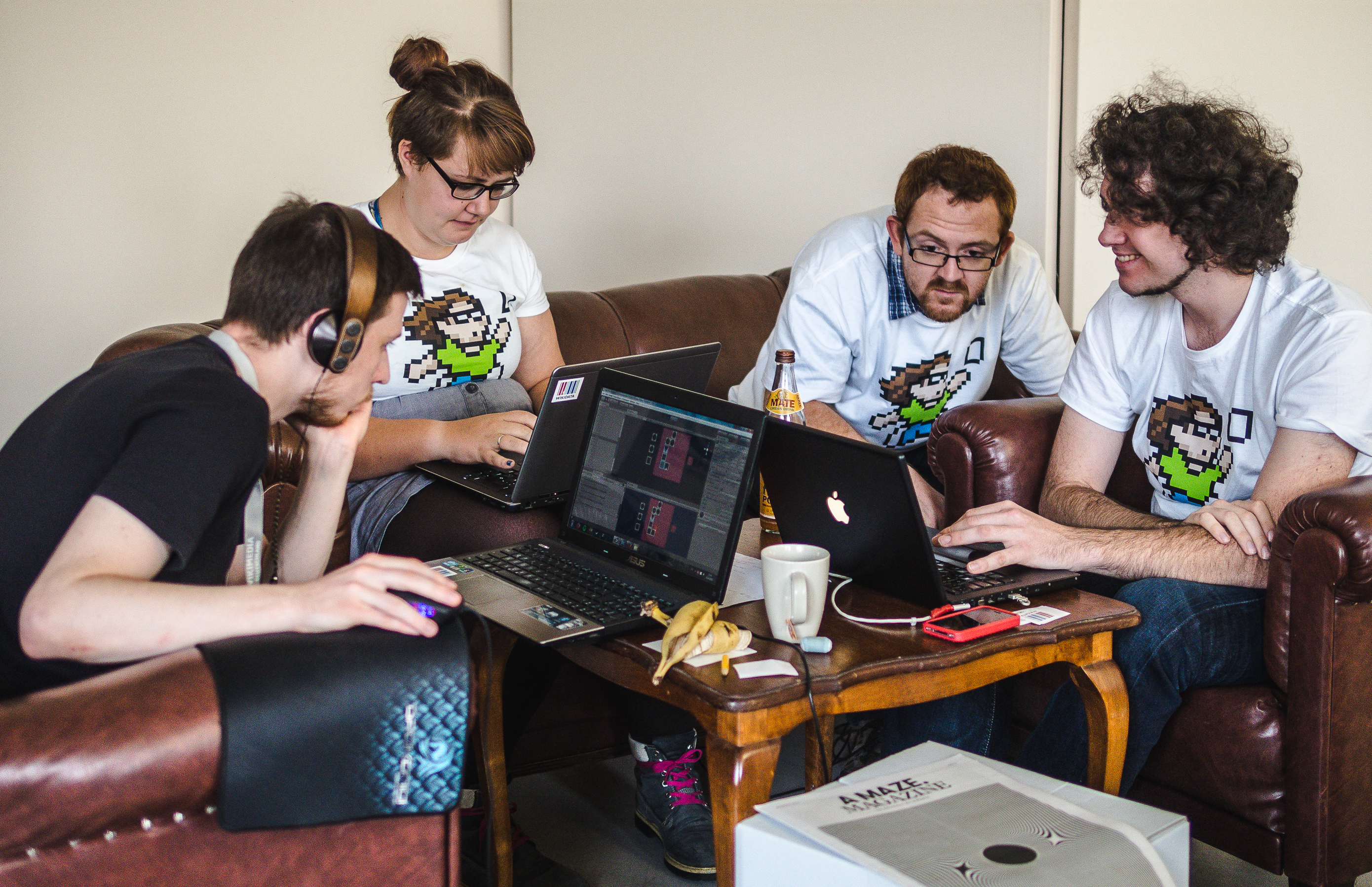 Free Knowledge Game Jammers